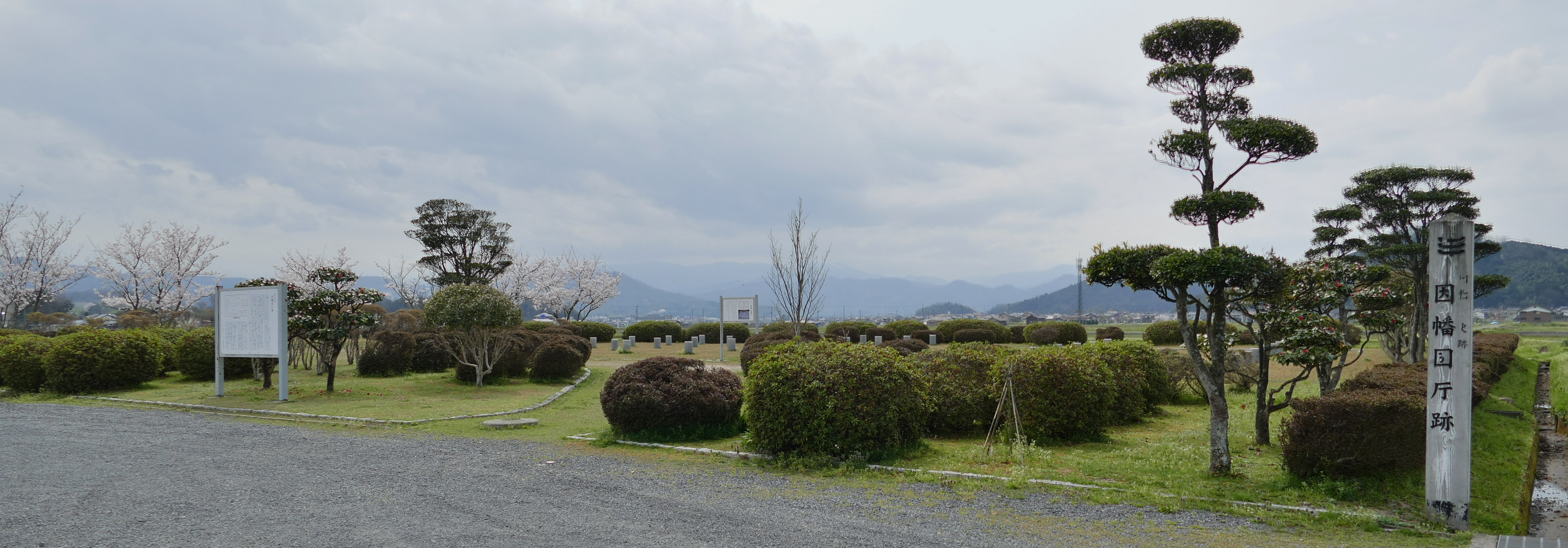 The Inaba Kokucho (public office) Ruins,Tottori prefecture,Japan